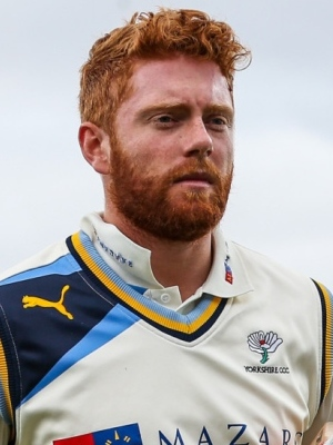 Bairstow playing for Yorkshire, 2015.